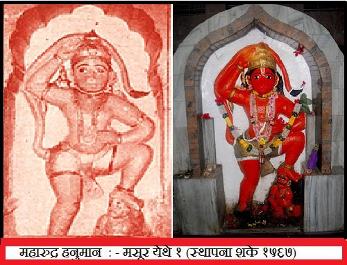 मसूरचा मारुती